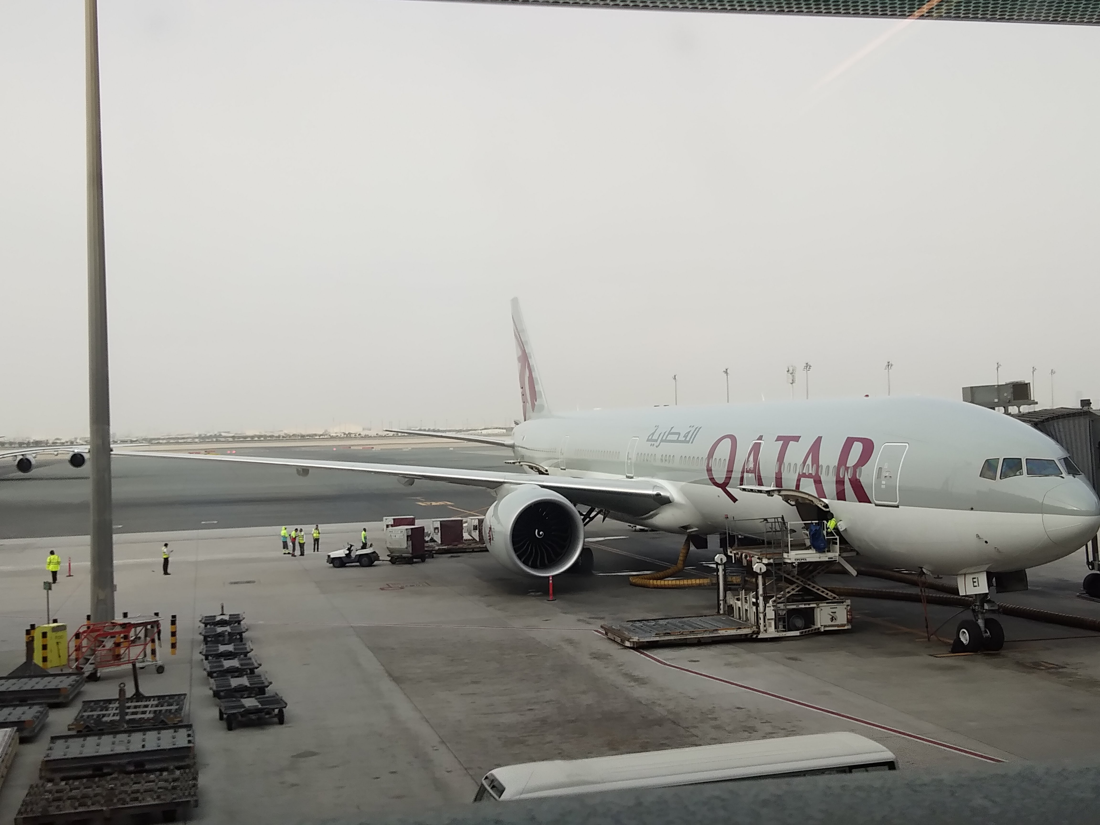 Qatar Airways flight to JFK. Qatar performs additional security measures before entering flights to the United States.